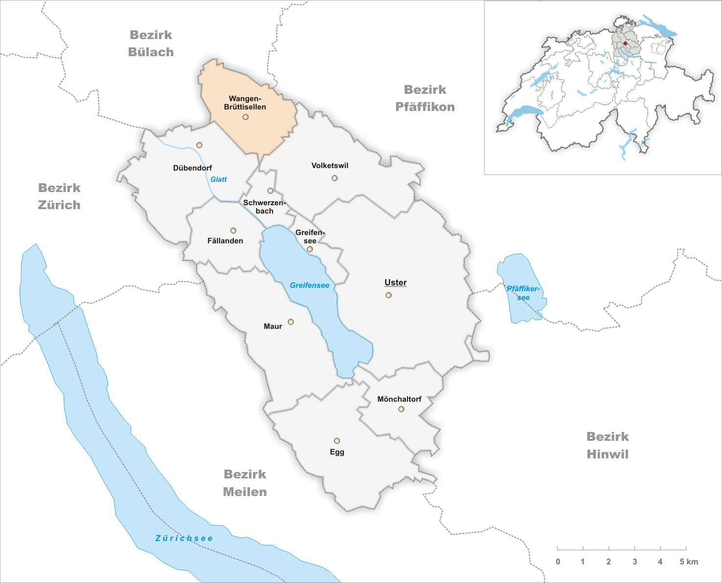 Municipality Wangen-Brüttisellen